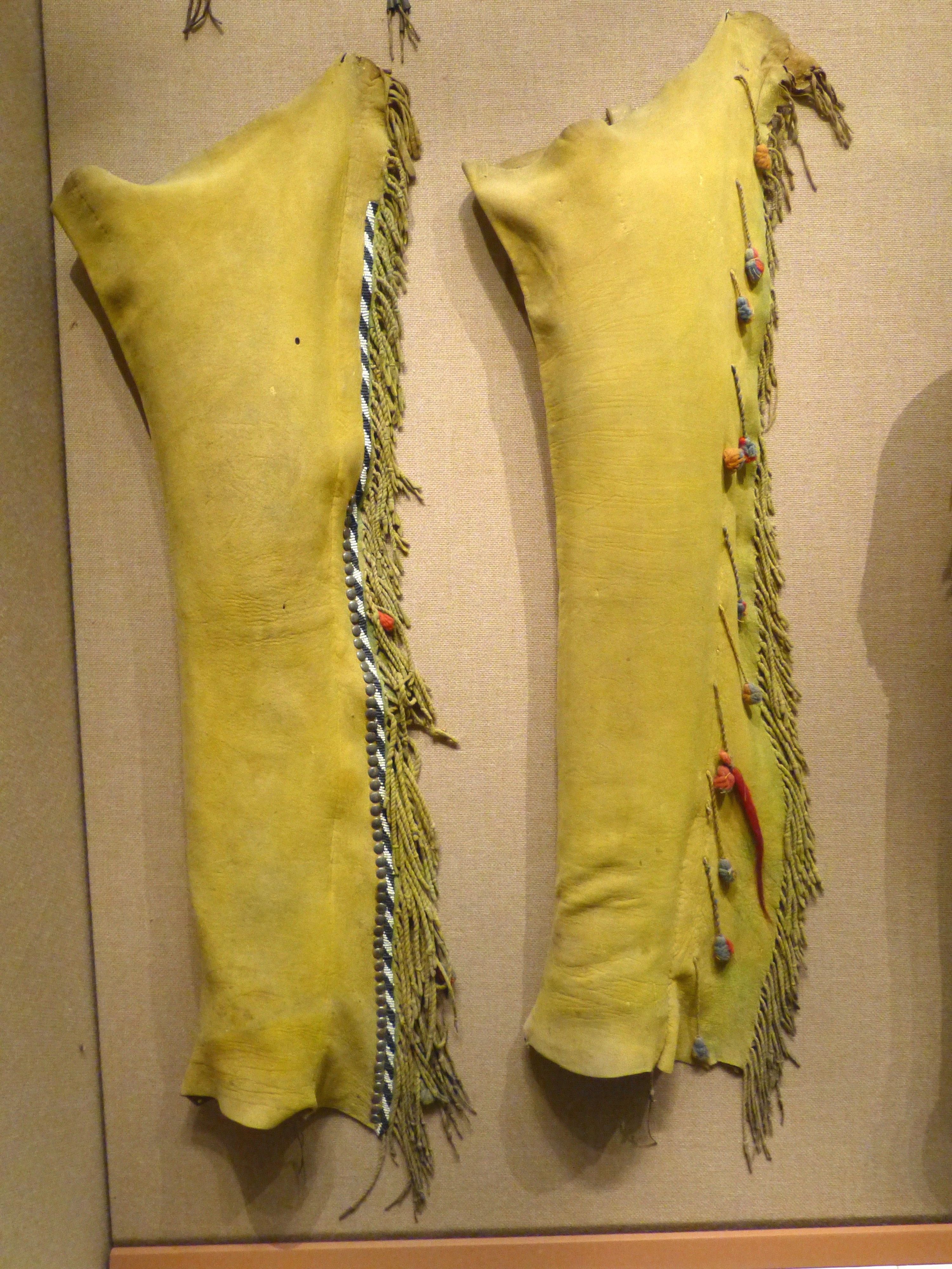 National Cowboy & Western Heritage Museum ( Oklahoma City ). Kiowa Leggings ( 1890-1900 ). CatNo. 91.1.3414 a,b.